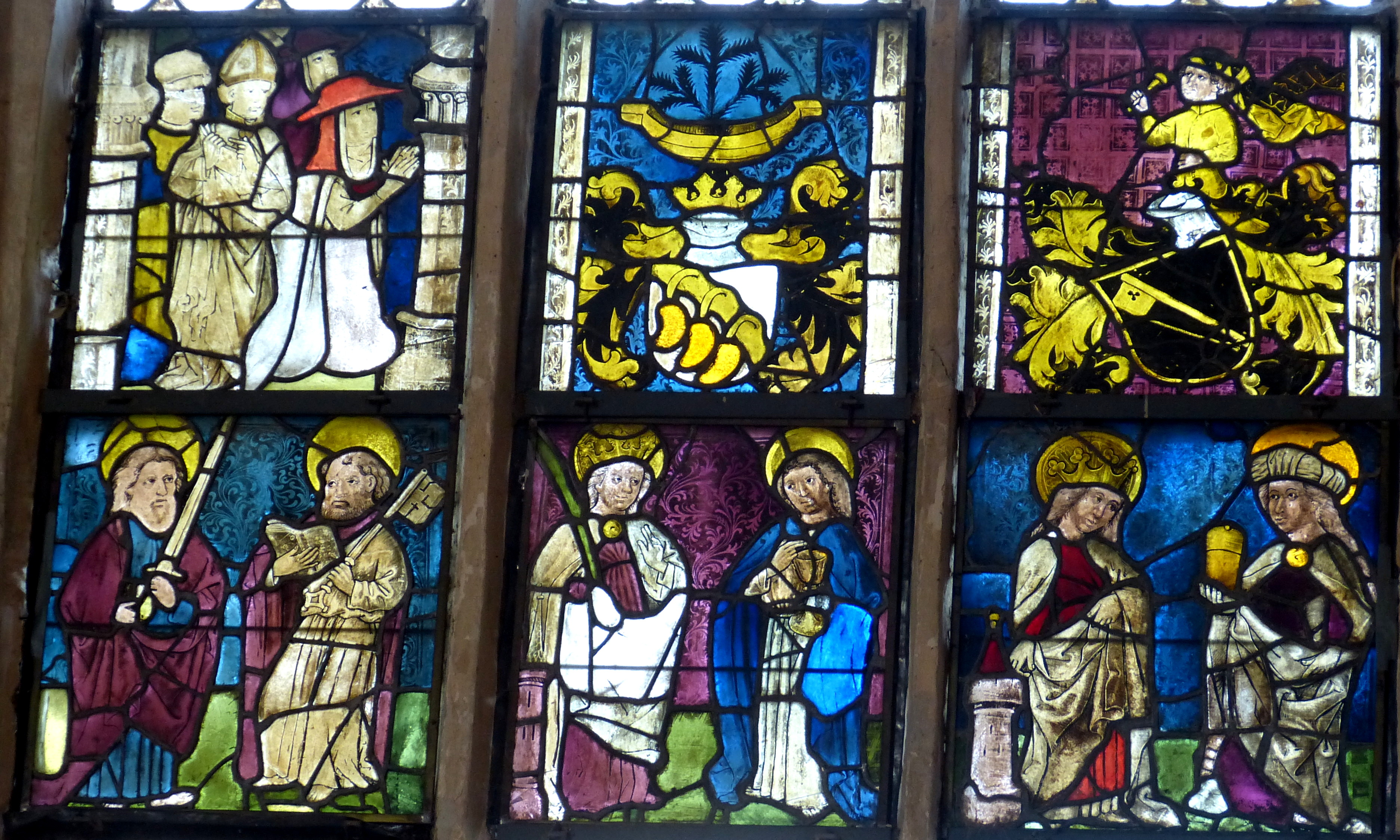 Grongörgen ( Lower Bavaria ). Saint Gregory church: Stained glass window ( 1470s ) in the northern wall.